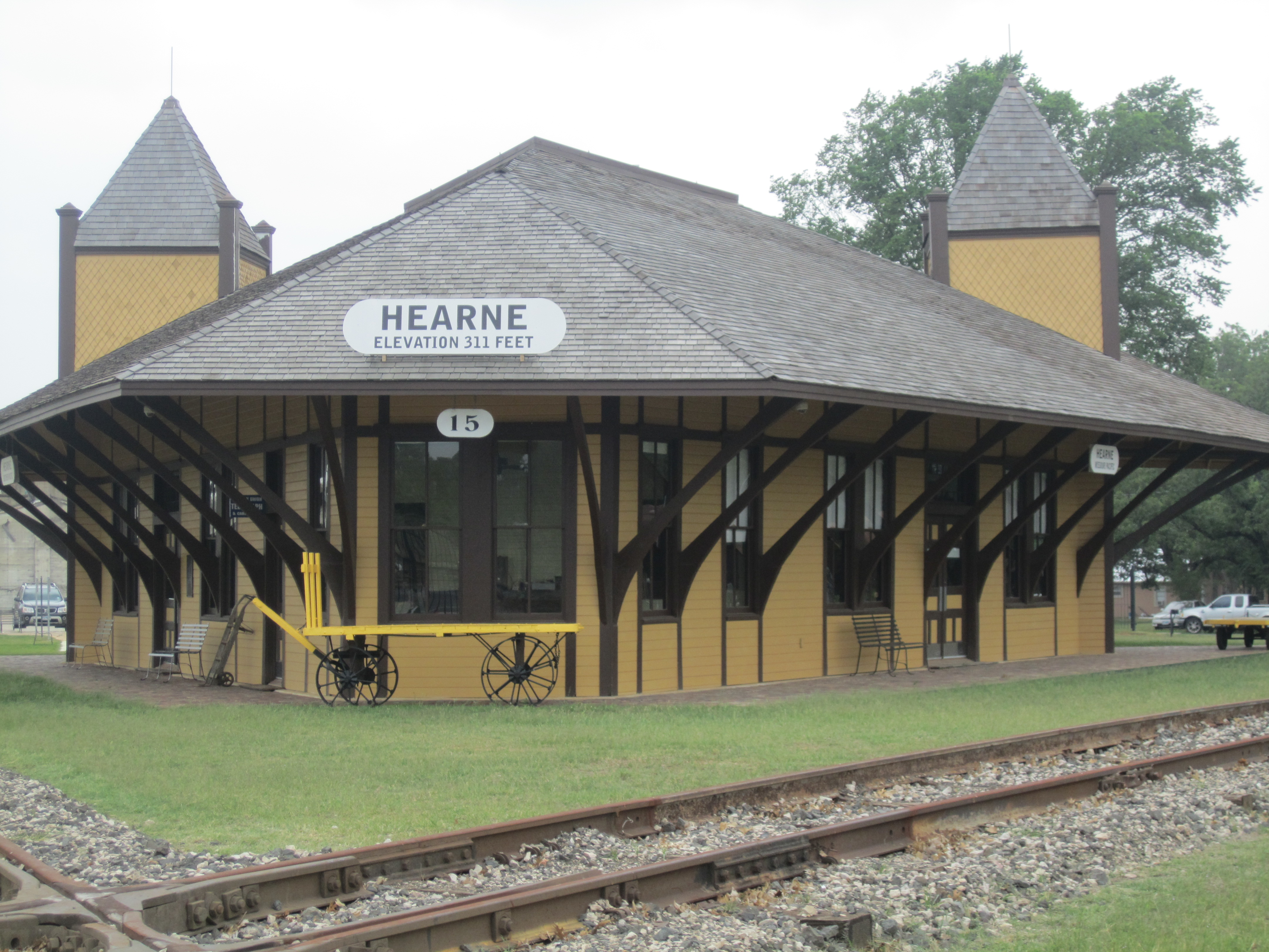 I took photo of Hearne Depot Museum with Canon camera in Hearne, TX.